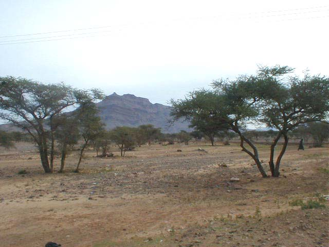 silhouette of Acacia nilotica (Agdz, Morocco); notice the typical "glasses-shaped mountain" (Jbal kissan) in the background. Walon: ombion di l' acacia do Nil (portrait saetchî pa L. Mahin).